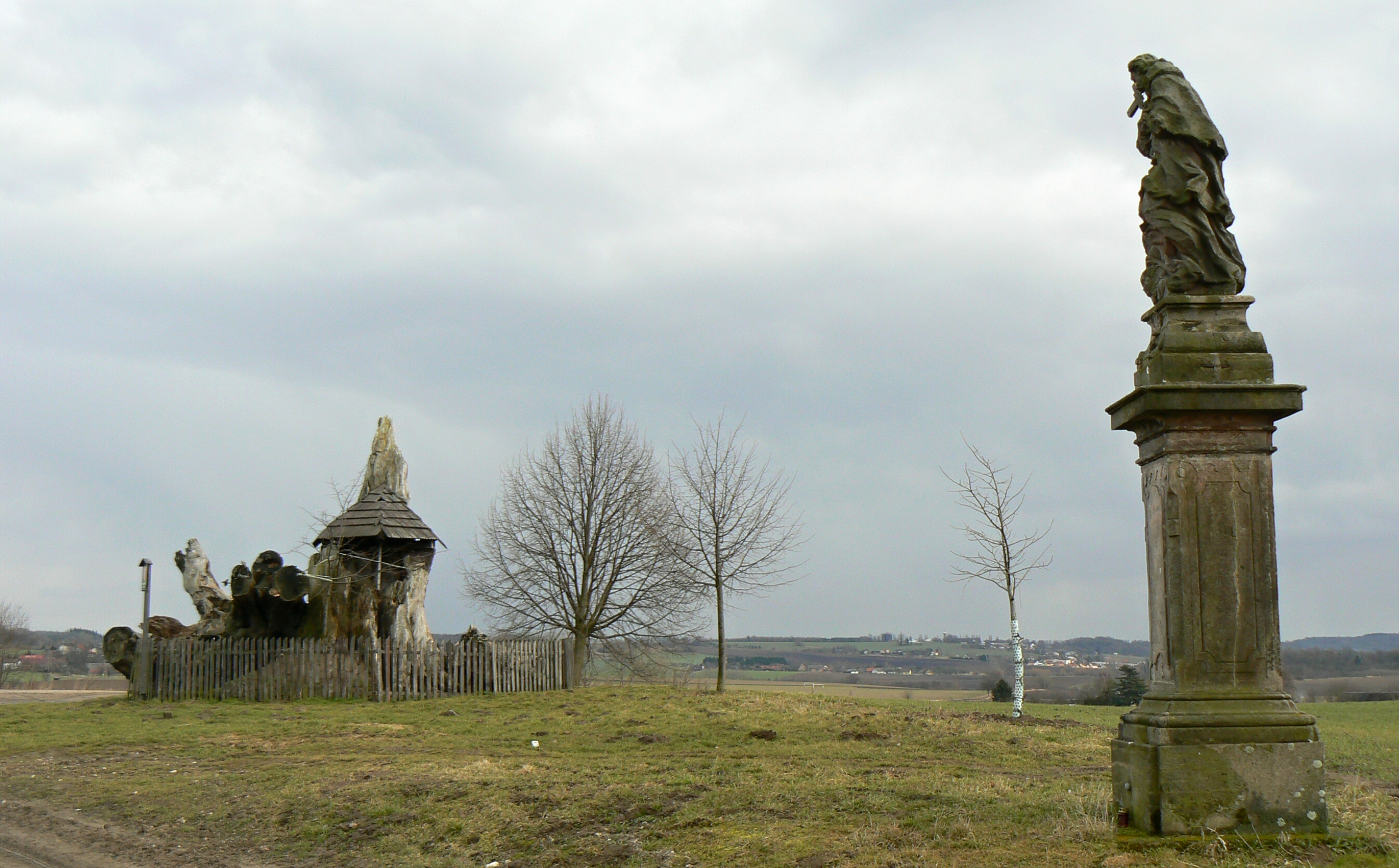 Famous tree (named Semtínská lípa) between Sobotka and Podkost in Jičín District